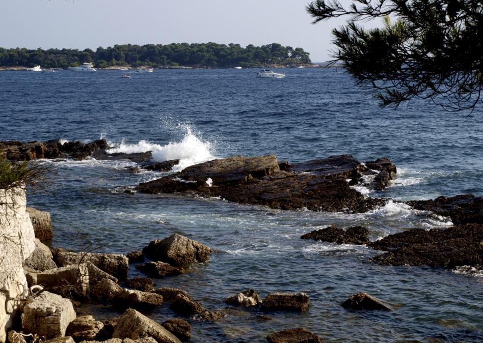 Between Ile St Marguerite & Ile St Honorat